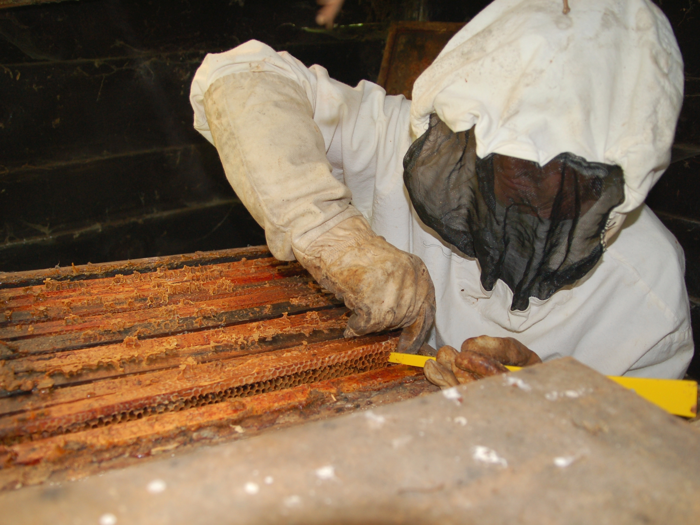 beekeeper working